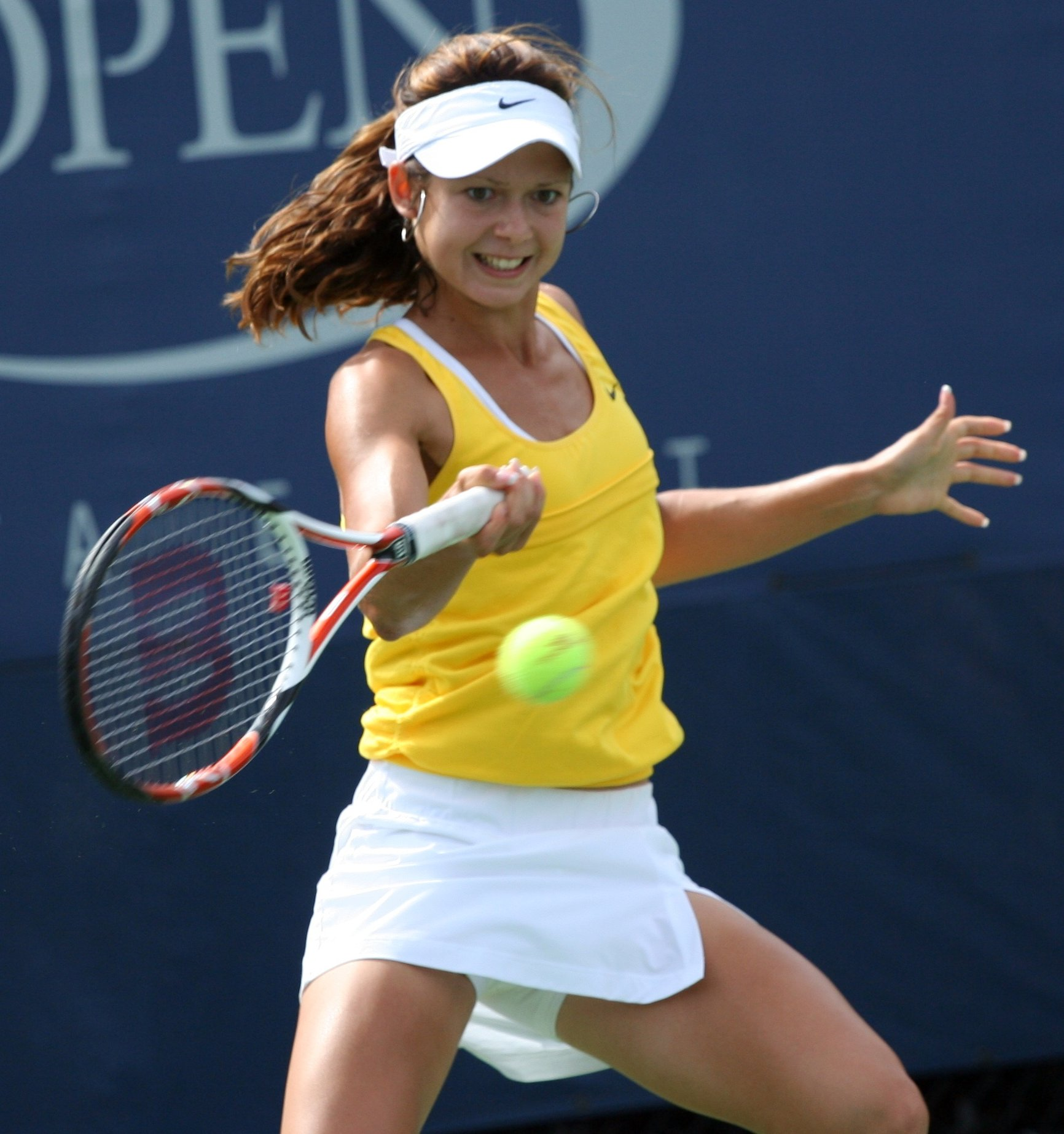 U.S. Open Juniors Tuesday, Sept. 8, 2009